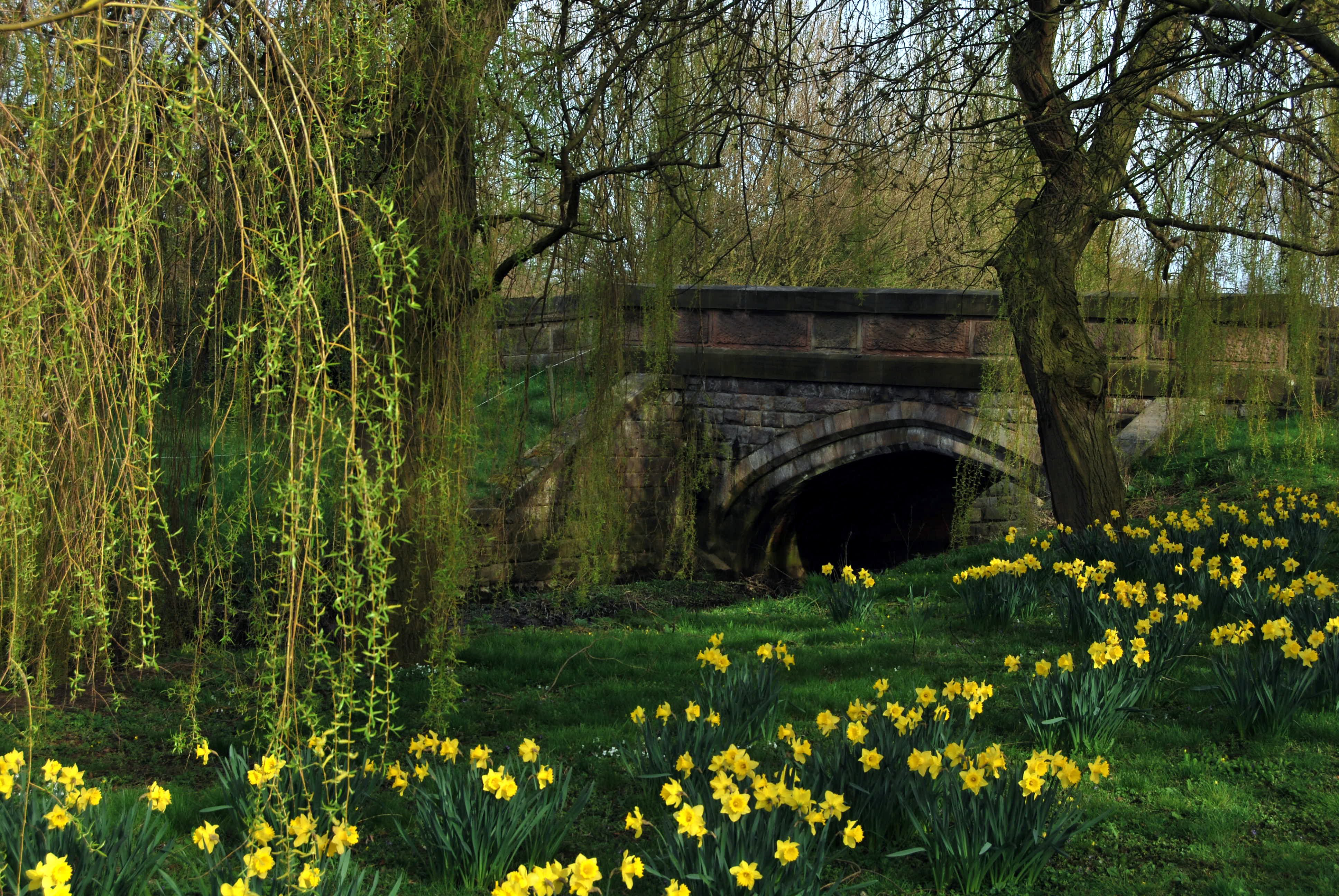 Kingston on Soar Nottinghamshire, brook at Springtime